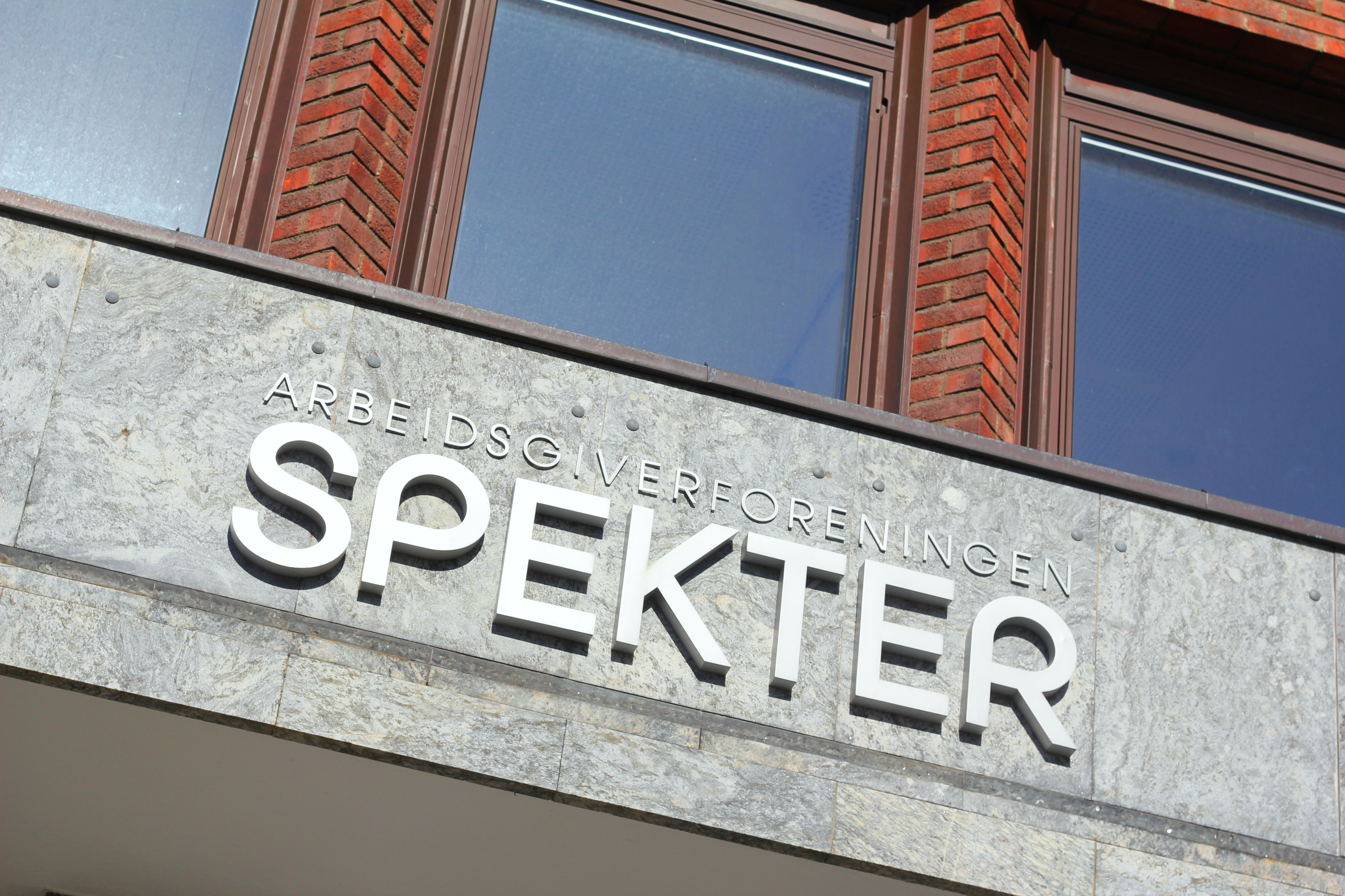 The main office of the Norwegian employers' organisation Arbeidsgiverforeningen Spekter in Oslo.